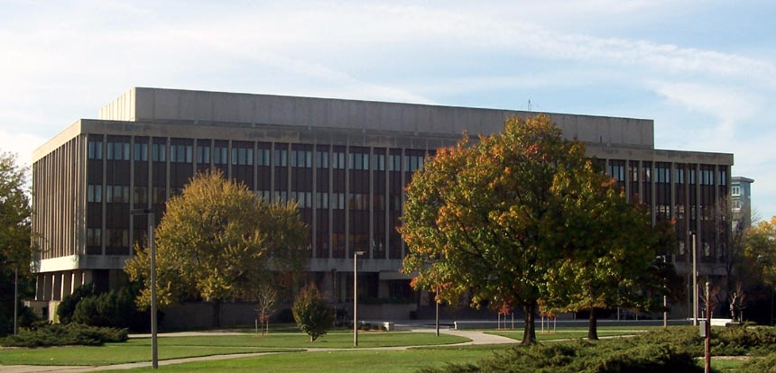 The Hannah Administration Building is named after former Michigan State University president John A. Hannah.